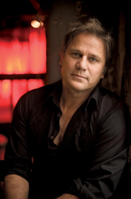 Jon Stevens